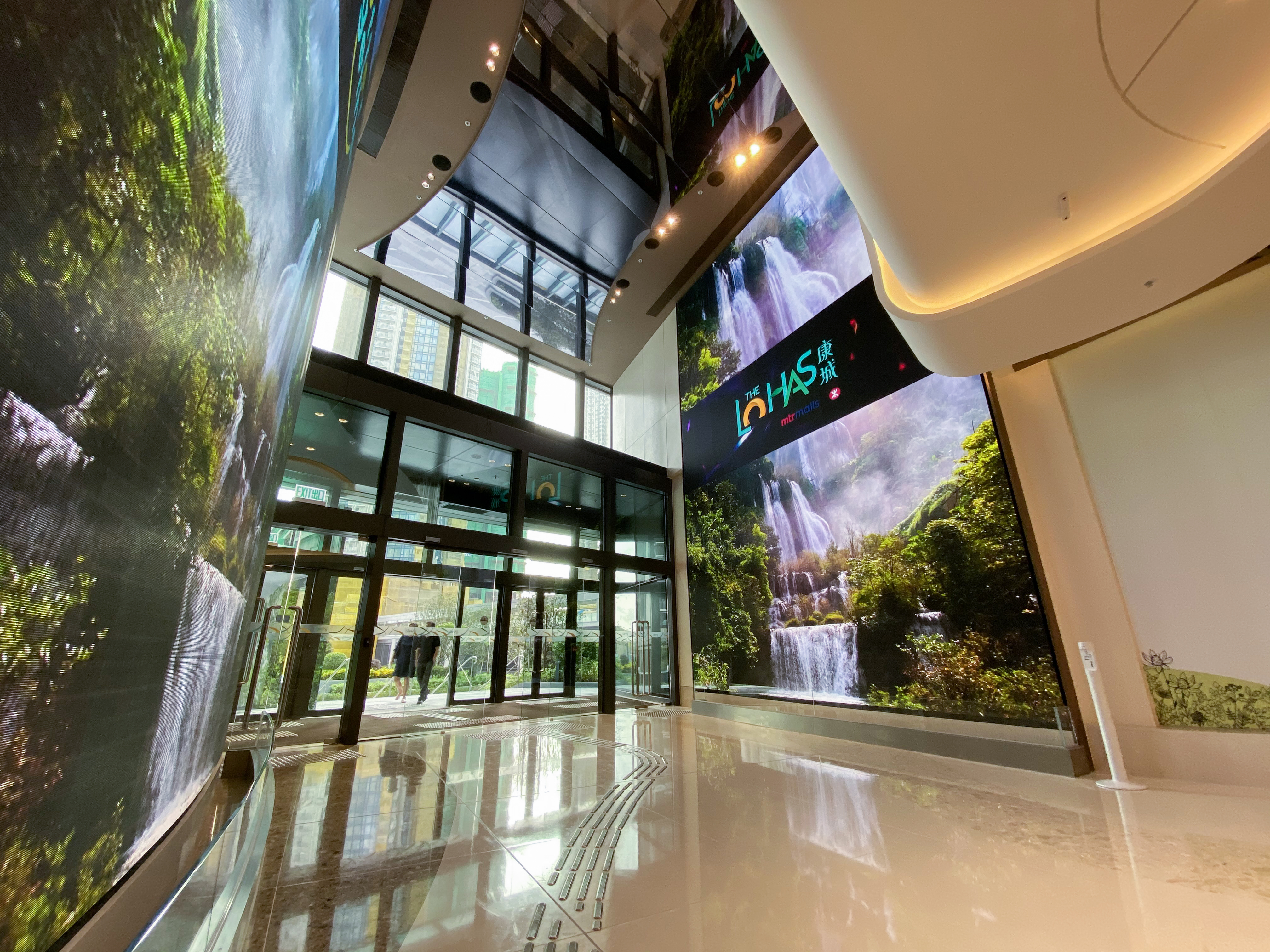 THE LOHAS Drop off area Entrance